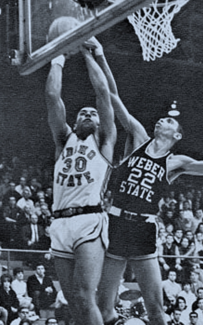 Idaho State University Bengals Basketball player Charles Parks from the 1967 “Wickiup” yearbook.